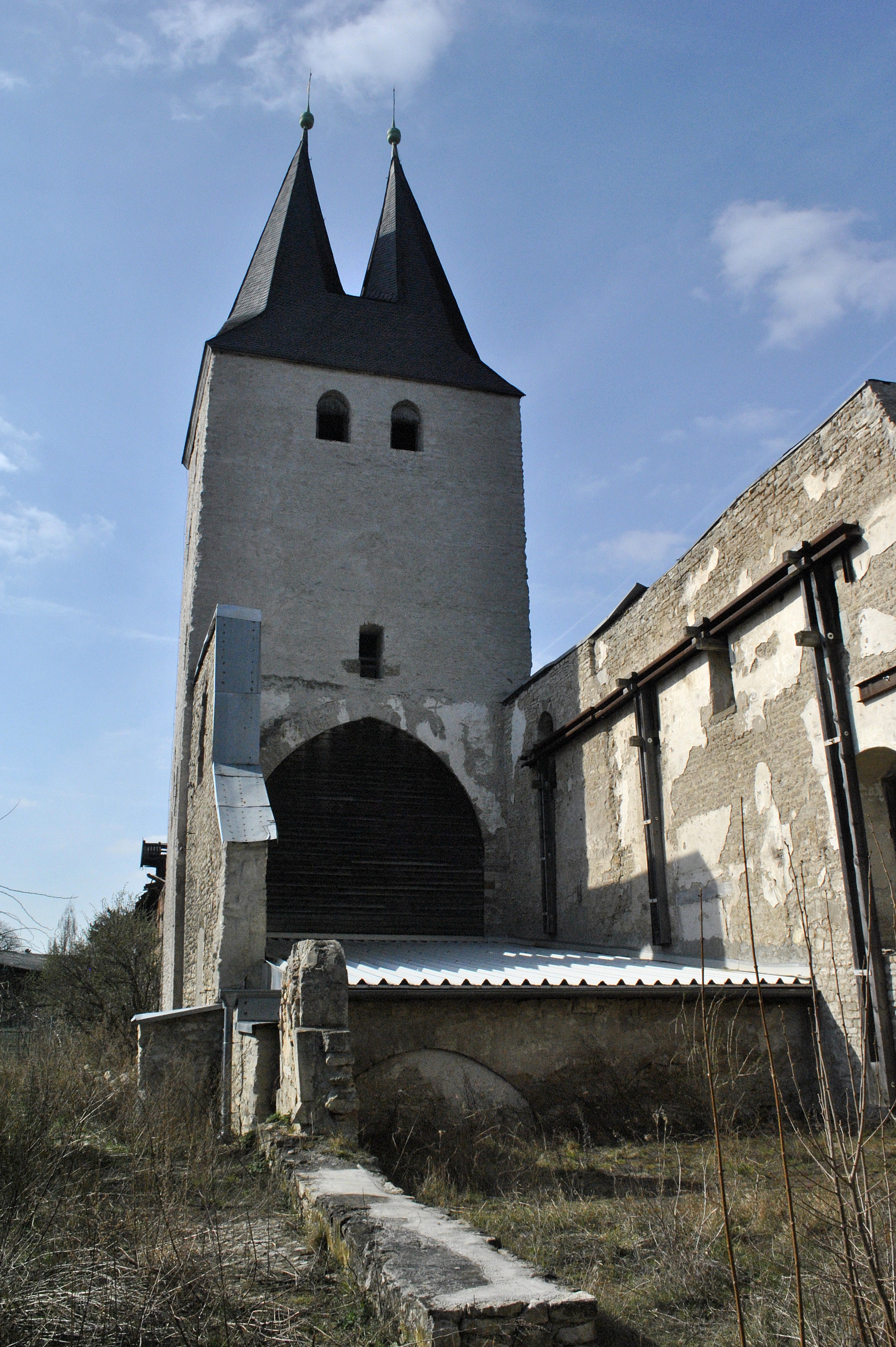 Inside view of Stötterlingenburg Abbey Church in Lüttgenrode, Saxony-Anhalt, Germany.